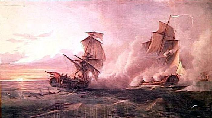 Capture of HMS Fox by Junon